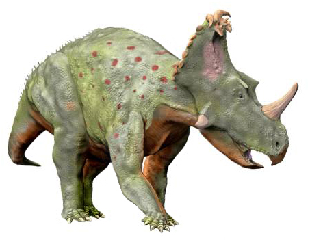 Coronosaurus brinkmani